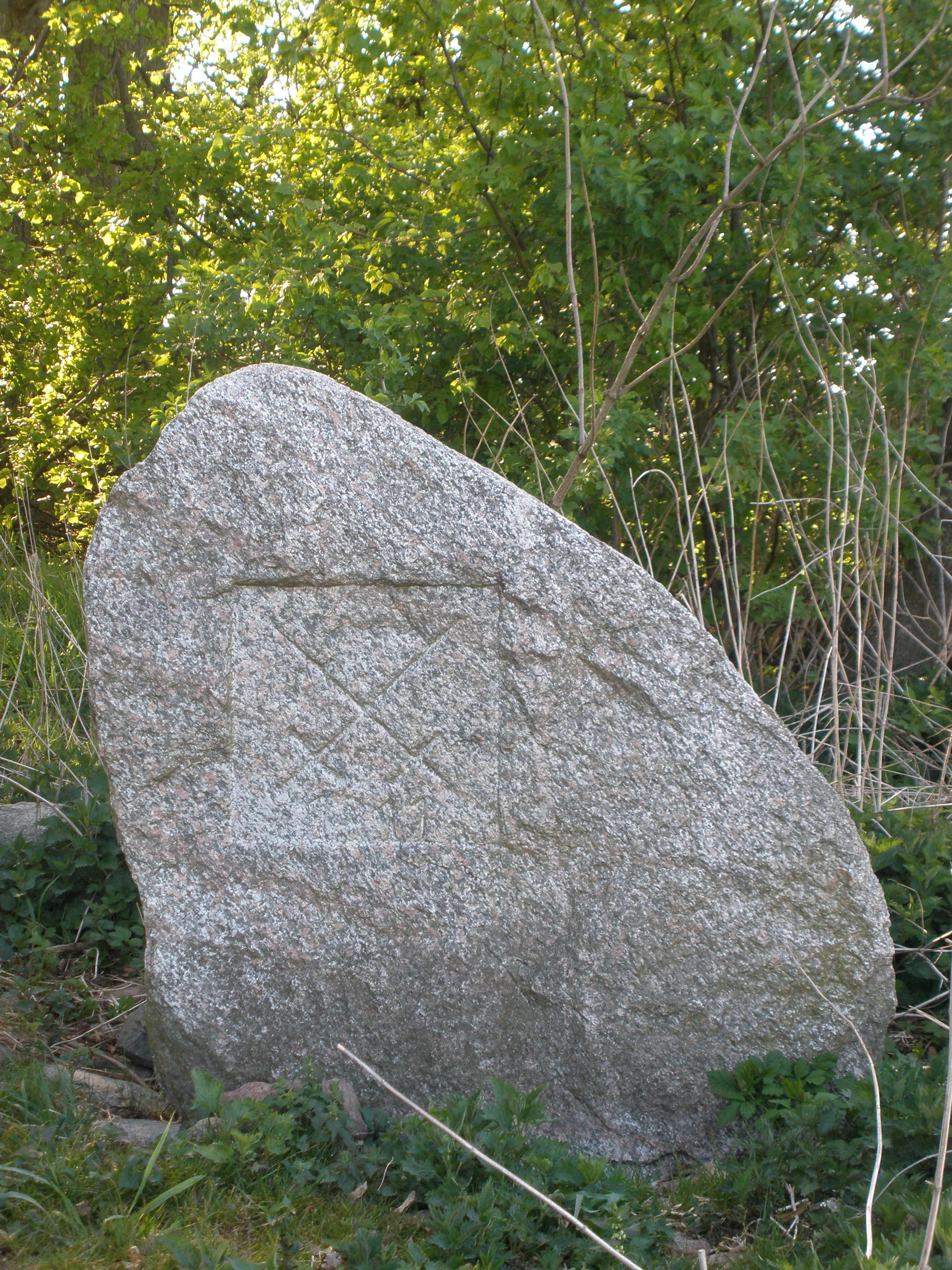 Boulder which commemorates a battle between Teutonic Knights and lithuanian forces in 1311.